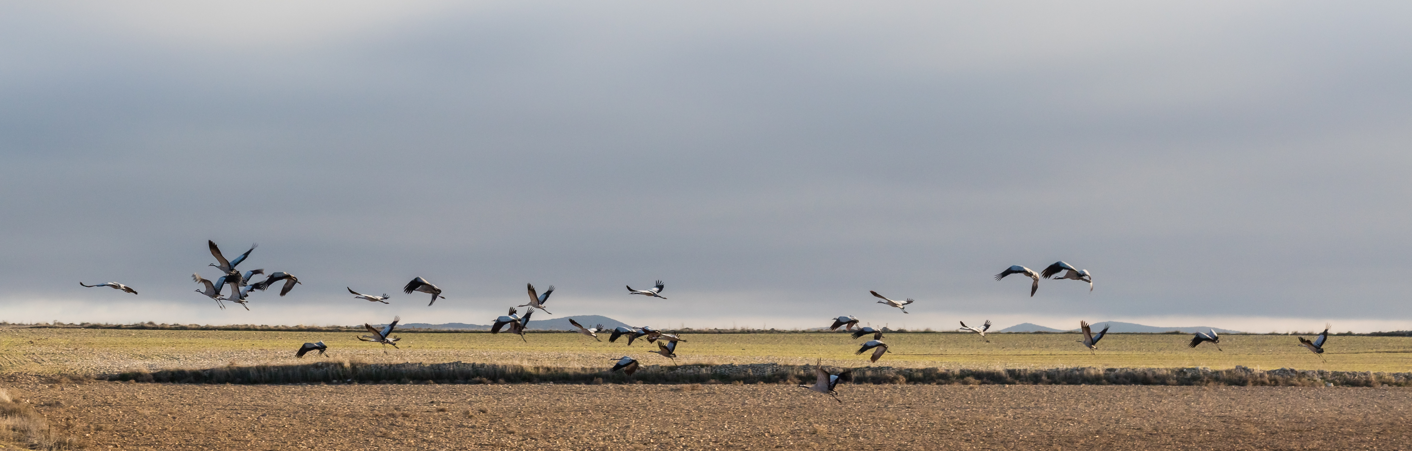 Common cranes (Grus grus), Bello, Teruel, Spain